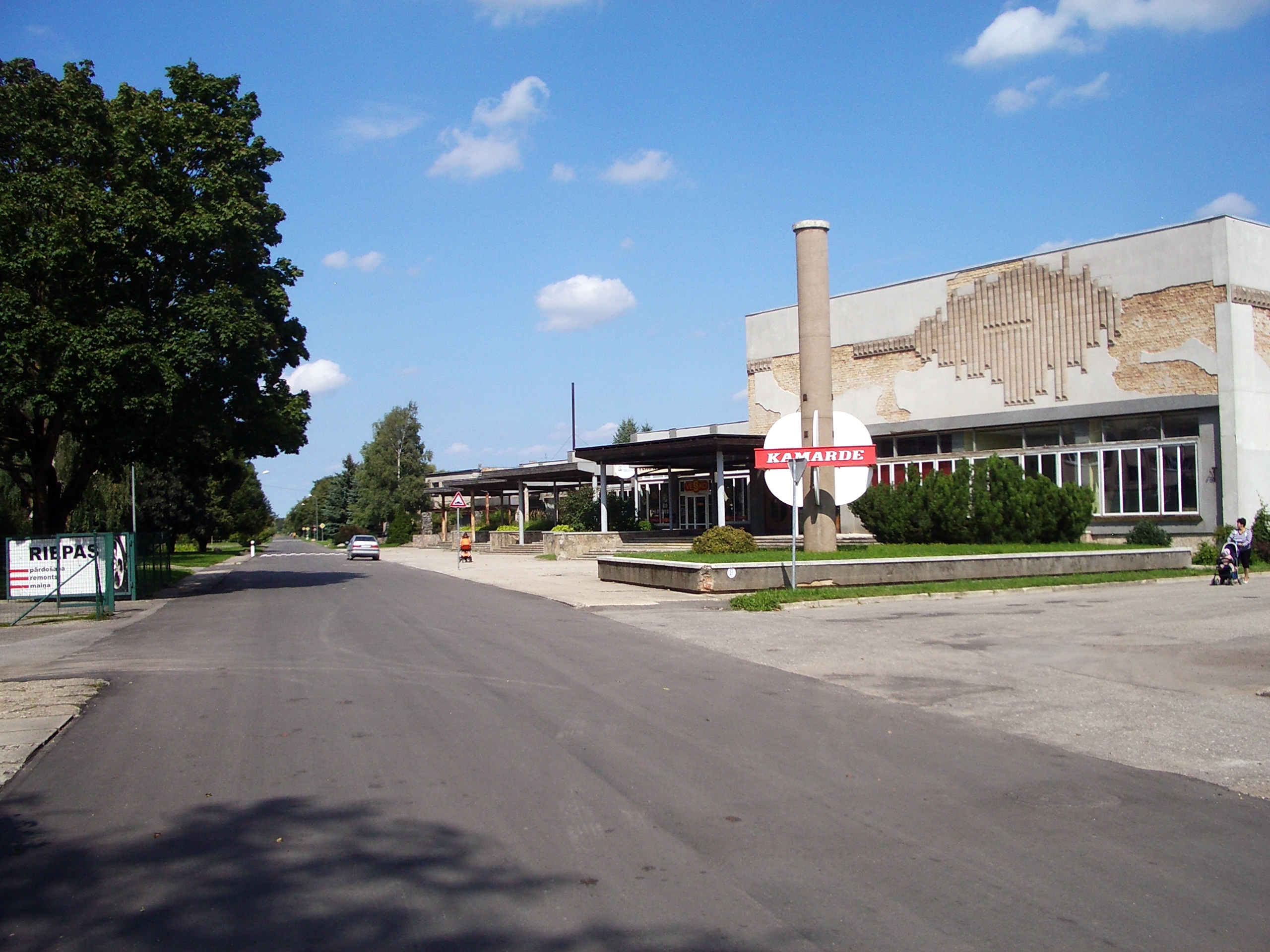 At the Uzvara village. August, 2011